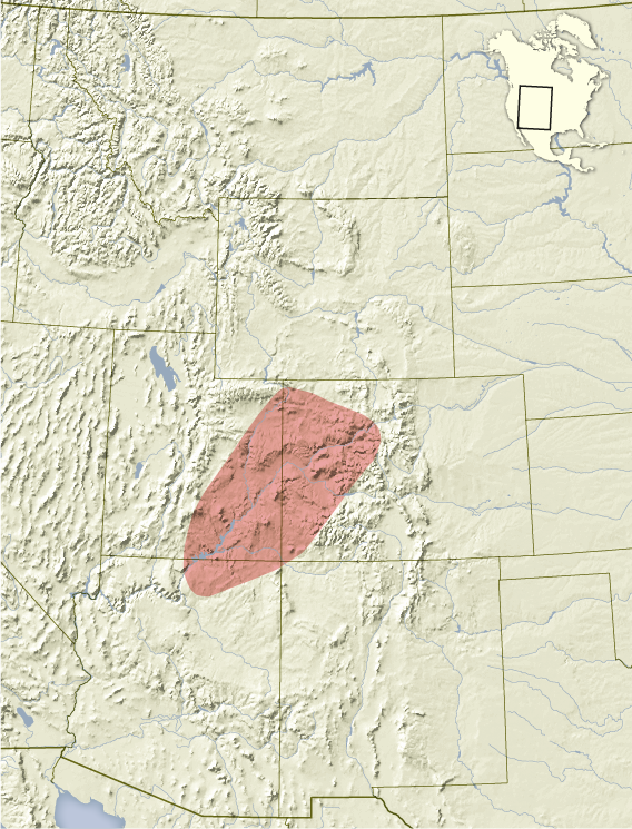 Distribution map of Hopi chipmunk